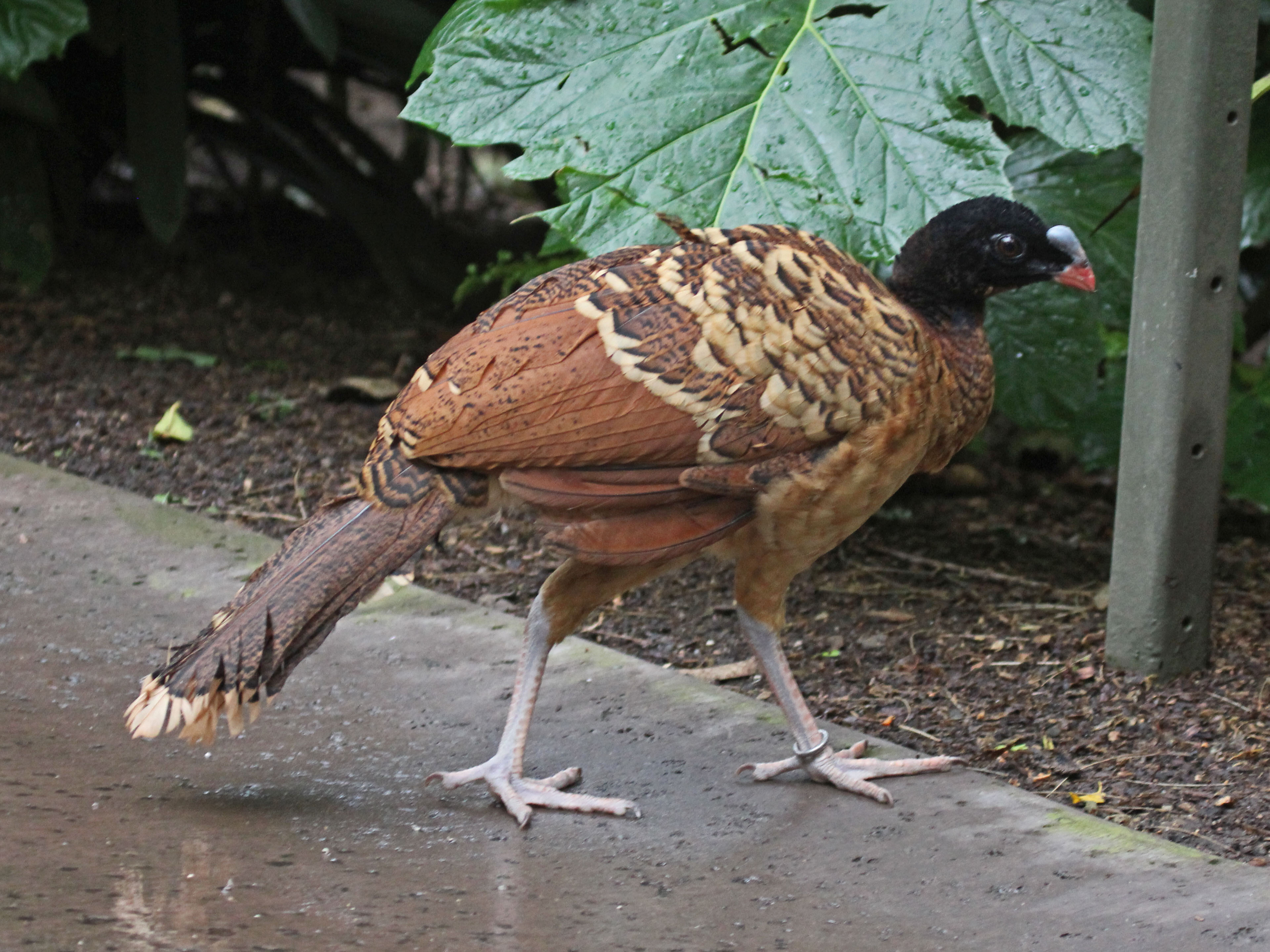 Female Helmeted Curassow, also known as Northen Helmeted Curassow (Pauxi pauxi) - San Diego Zoo. Other forms of the female closely resemble the male.